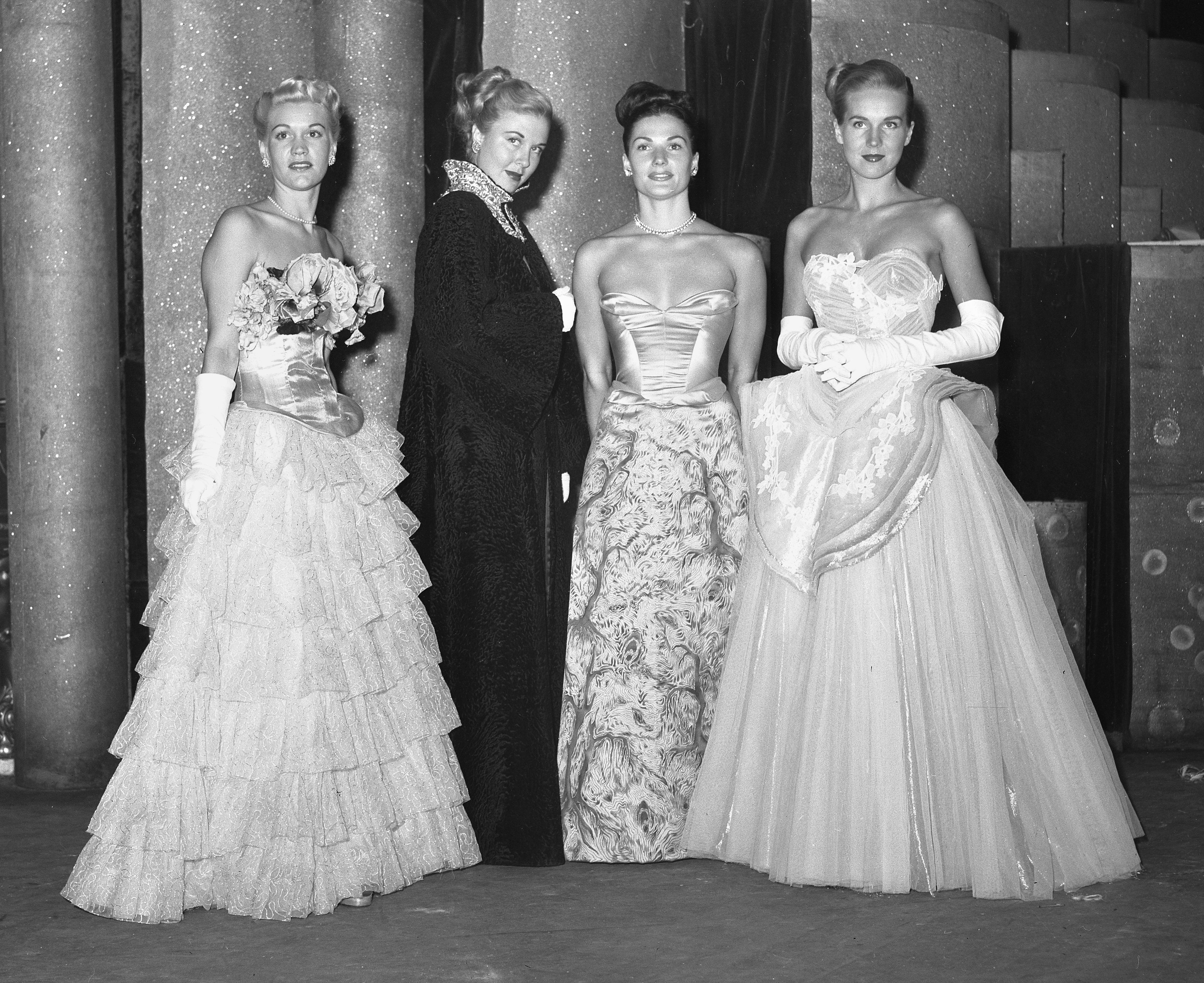 Evening gowns by Dorothy O'Hara, Orry-Kelly, Al Teitelbaum and Howard Greer. Published caption FORMAL ELEGANCE -- Evening mode originals by Dorothy O'Hara, Orry Kelly, Al Teitelbaum and Howard Greer were hits at Fashion Group show.